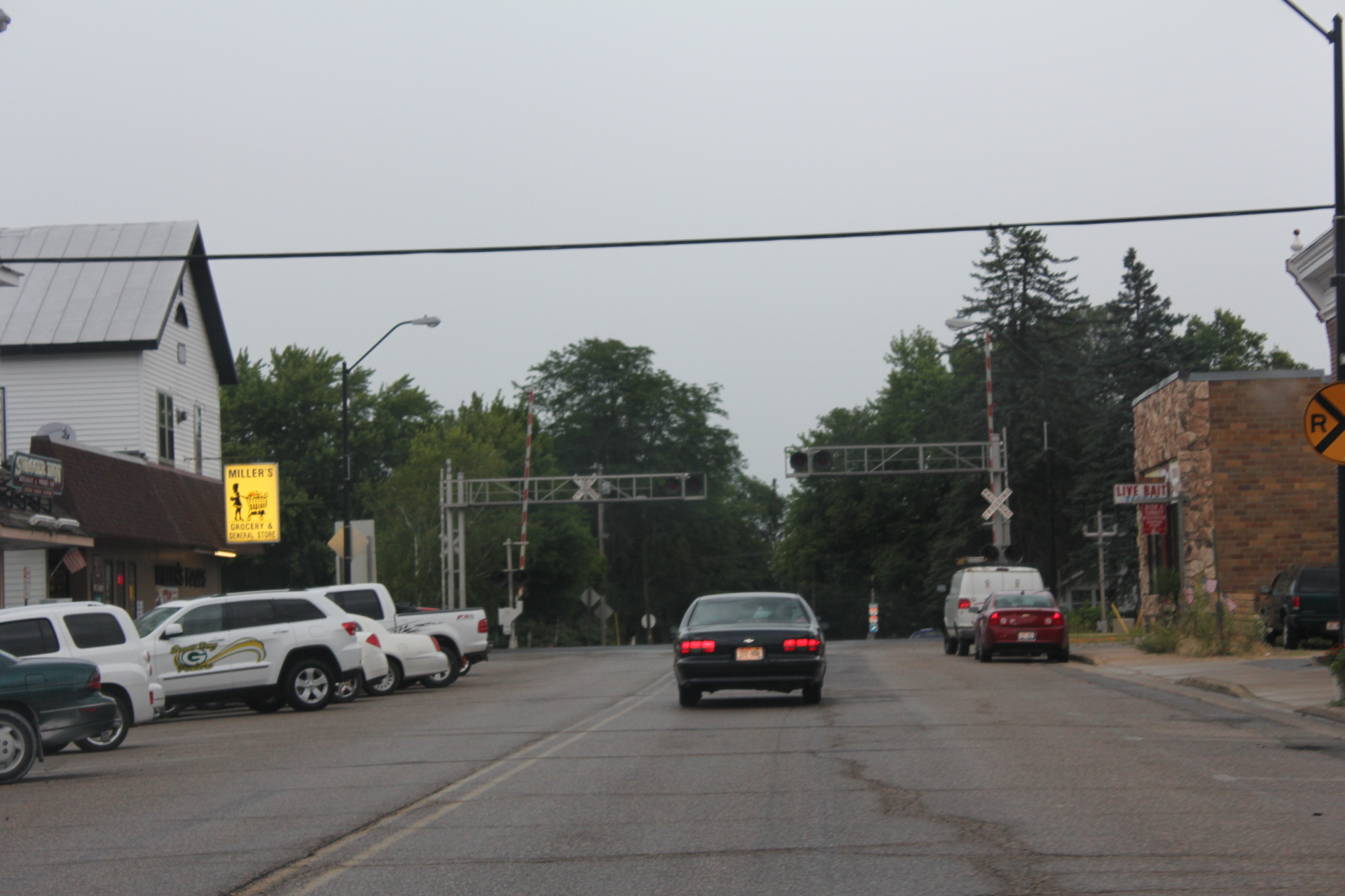 Looking northerly in downtown Lyndon Station, Wisconsin on County HH.